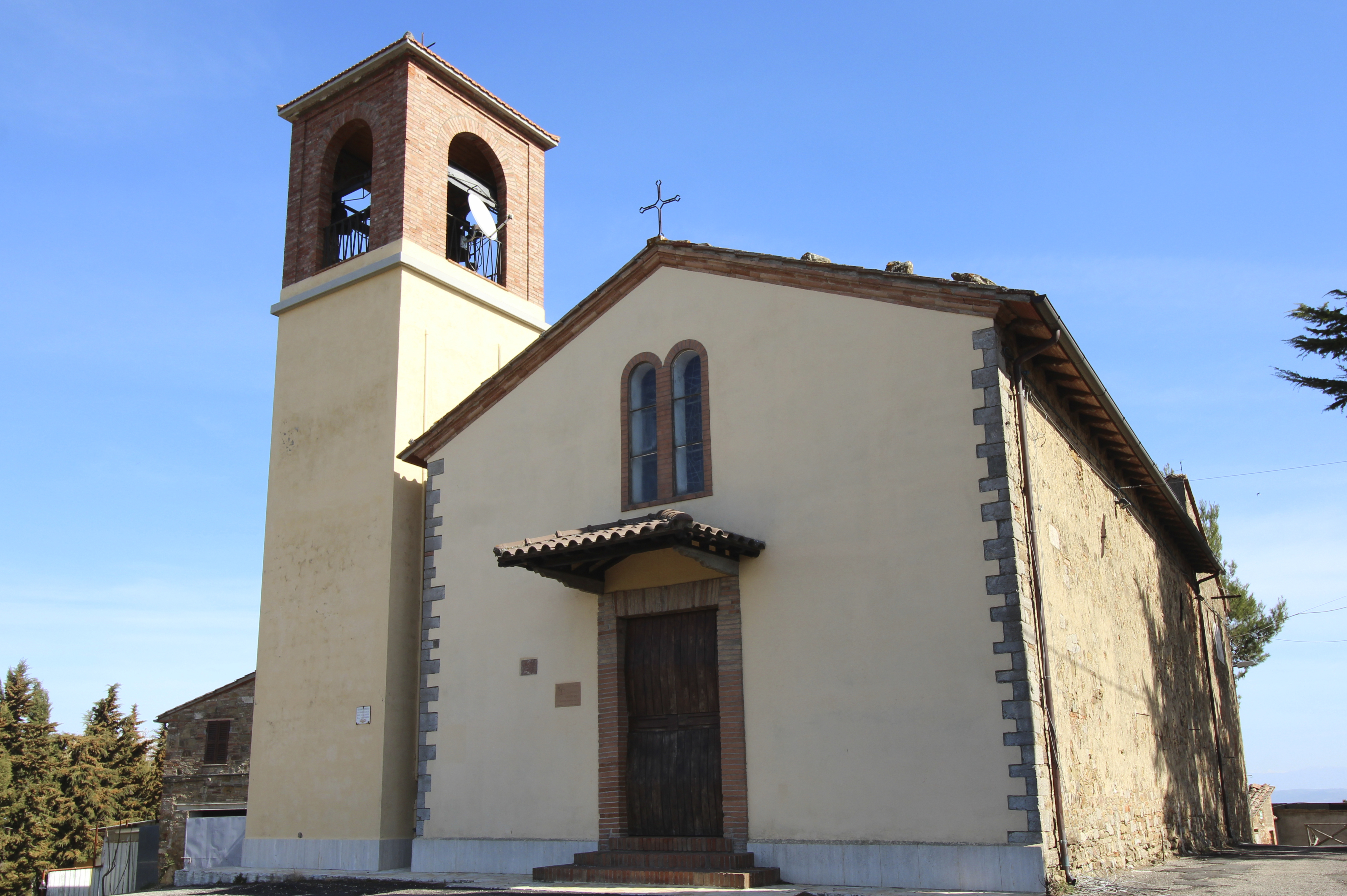 Church Santa Maria Assunta, Migliano, hamlet of Marsciano, Province of Perugia, Umbria, Italy